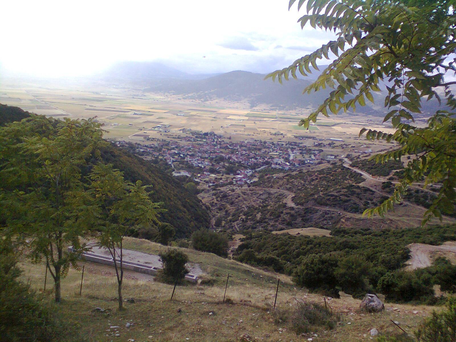 The village of Pithio, settelment of Elassona municipality.